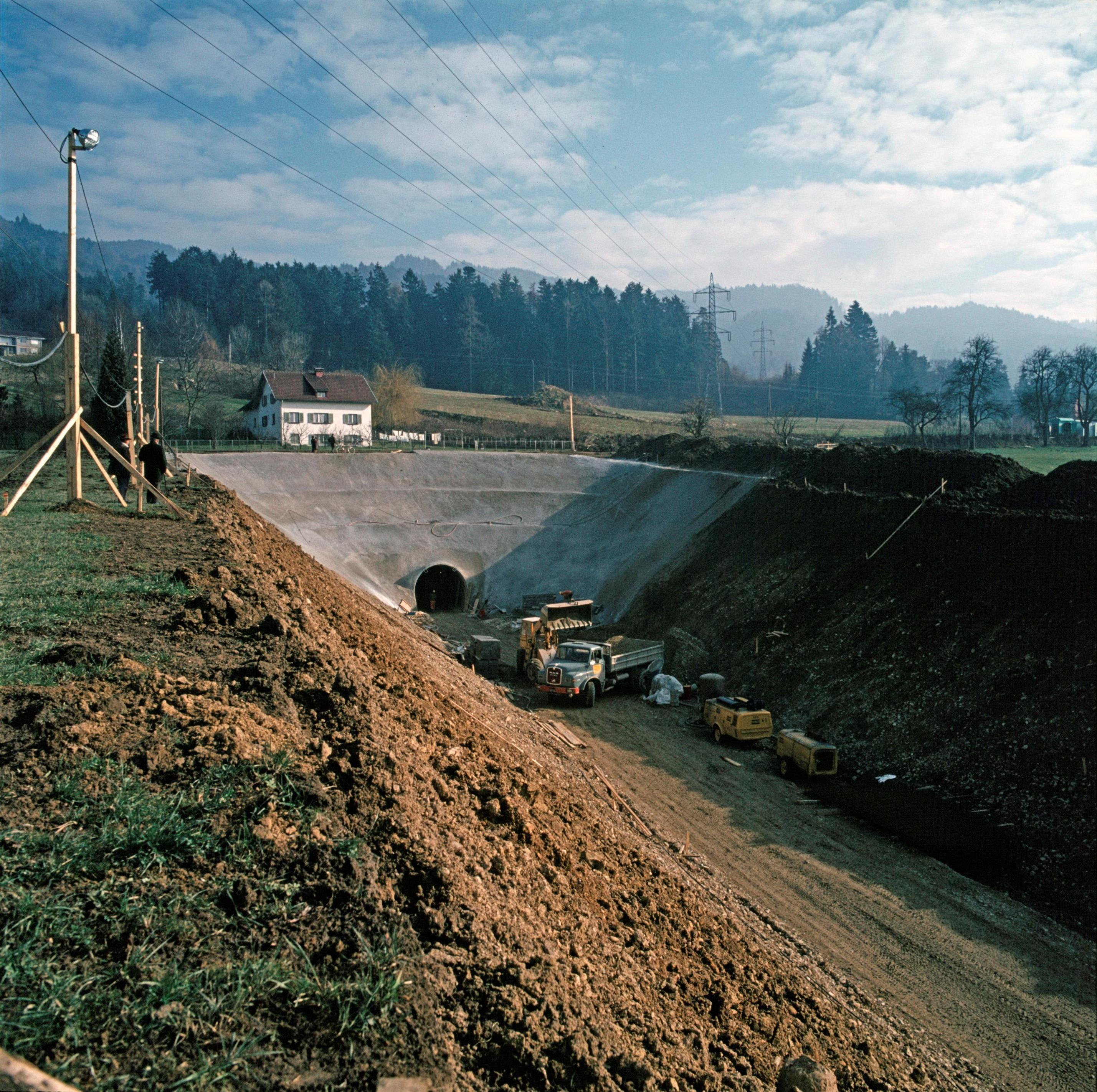 Construction site of the Pfändertunnel in Austria in 1975.